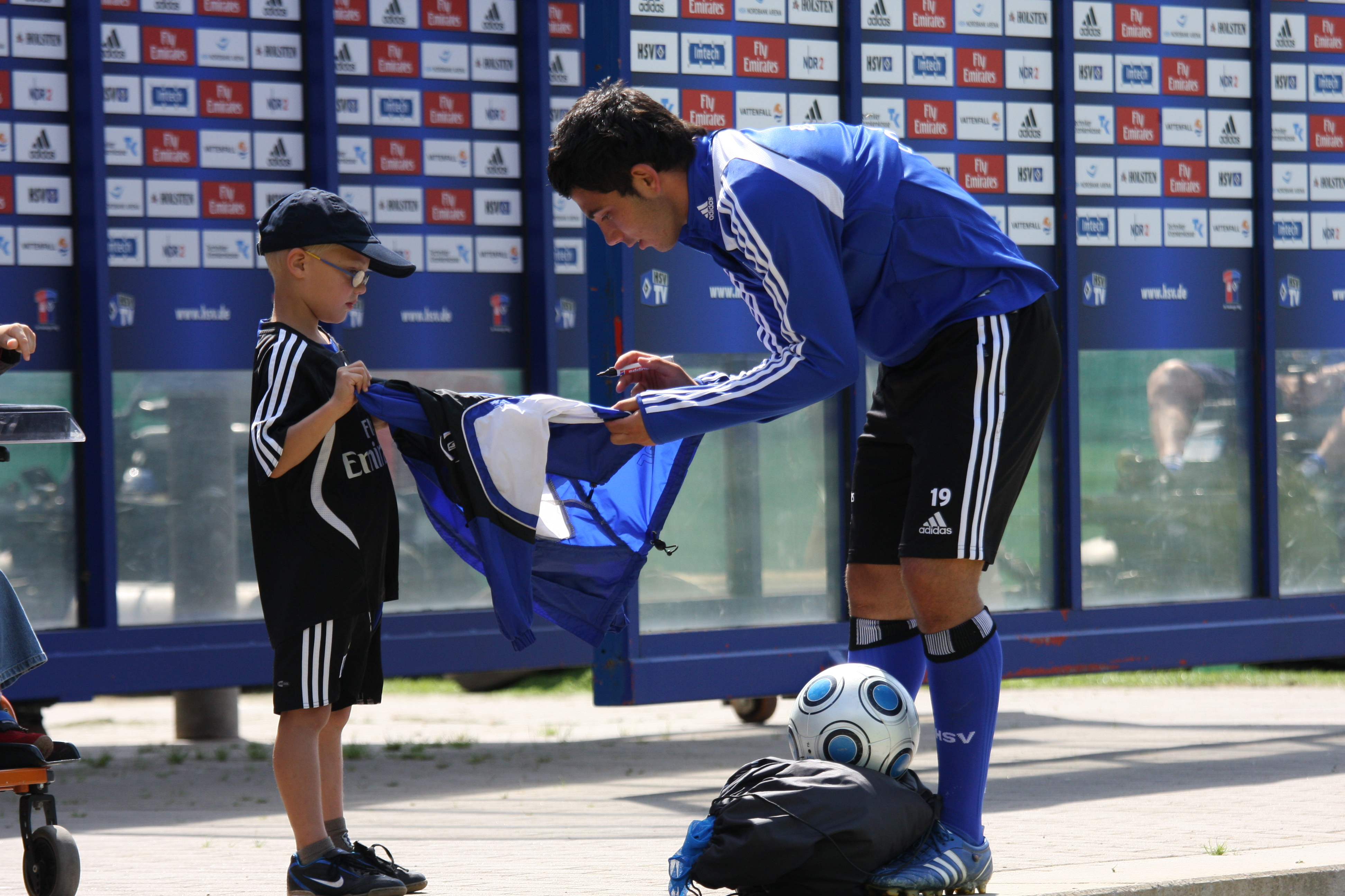 Tolgay Arslan of Hamburger SV